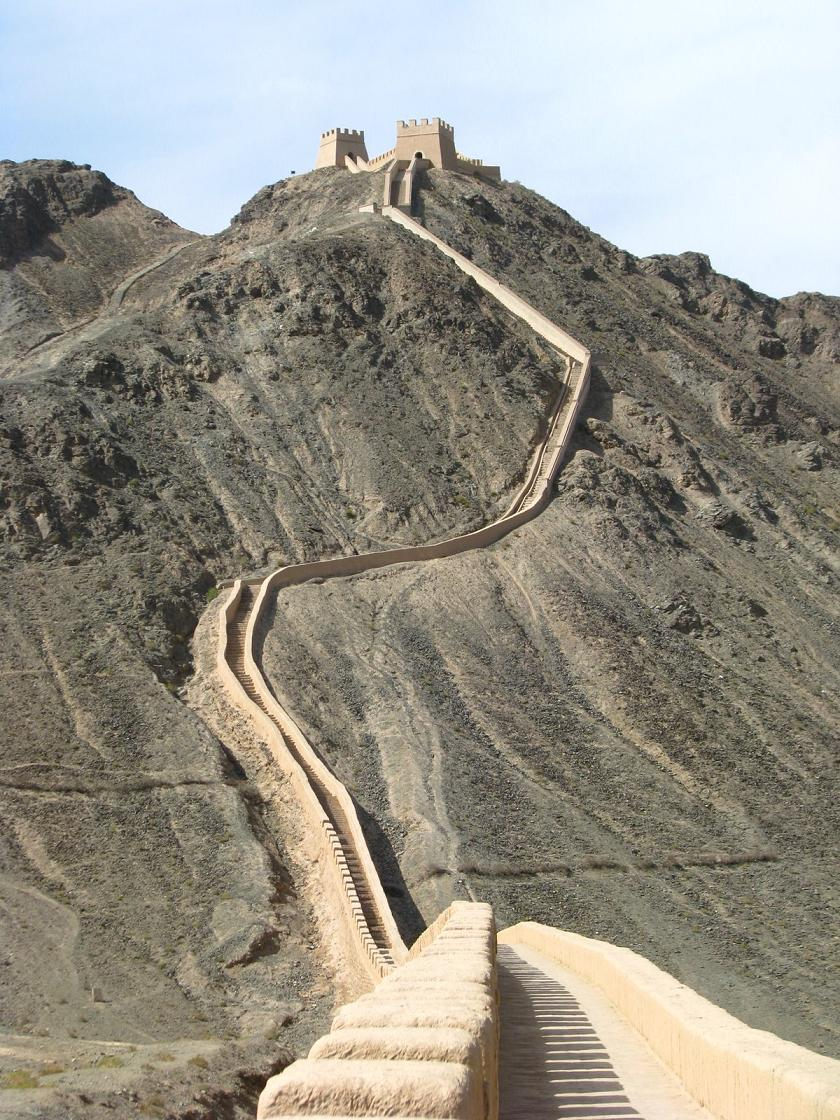 Overhanging Wall. Overhanging Wall - the end of the Great Wall of China, Jiayuguan.